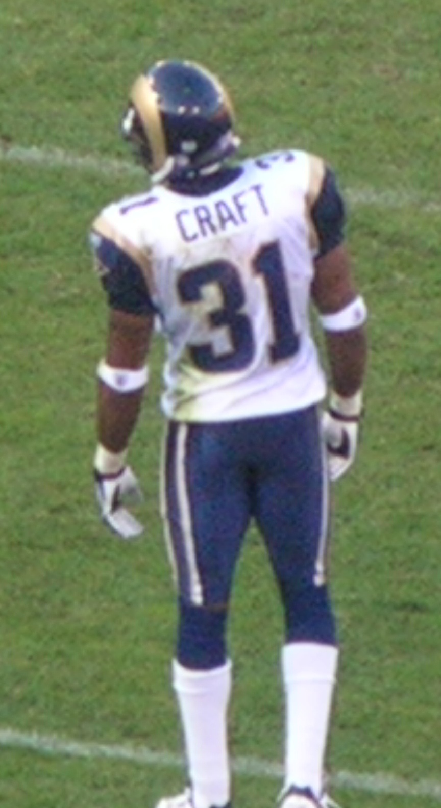 St. Louis Rams cornerback Jason Craft during a road game against the San Francisco 49ers. The 49ers won 35-16.